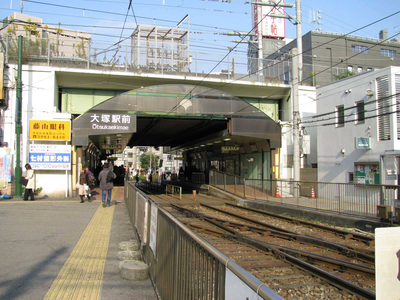 Otsukaekimae Station on the Toden Arakawa tramline in Tokyo